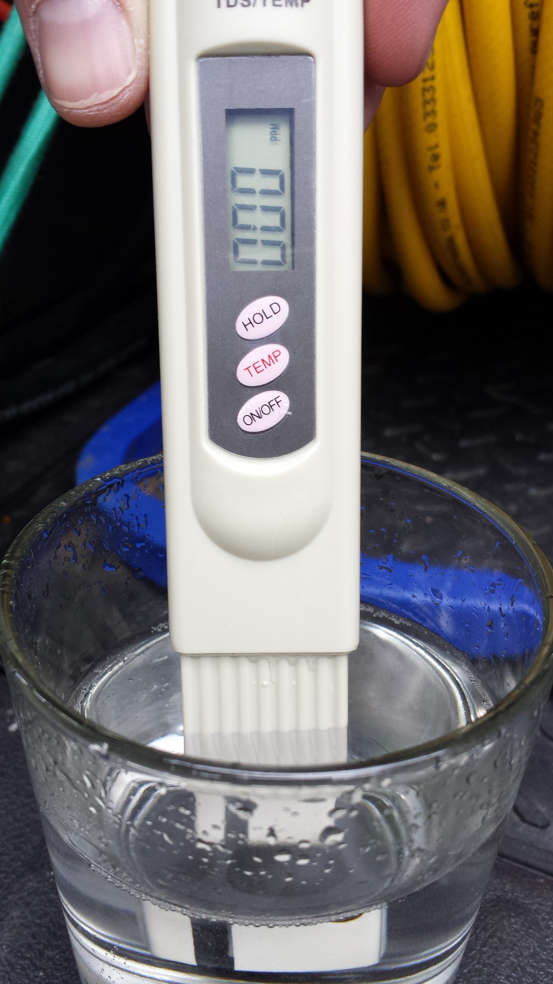 TDS (Total Dissolved Solids) meter used to test purity of water for Reach and Wash window cleaning.